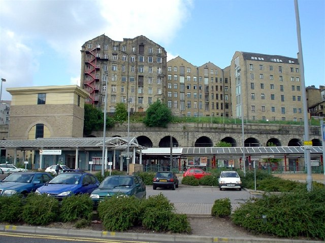 Bradford Forster Square Station, Summer 2004.